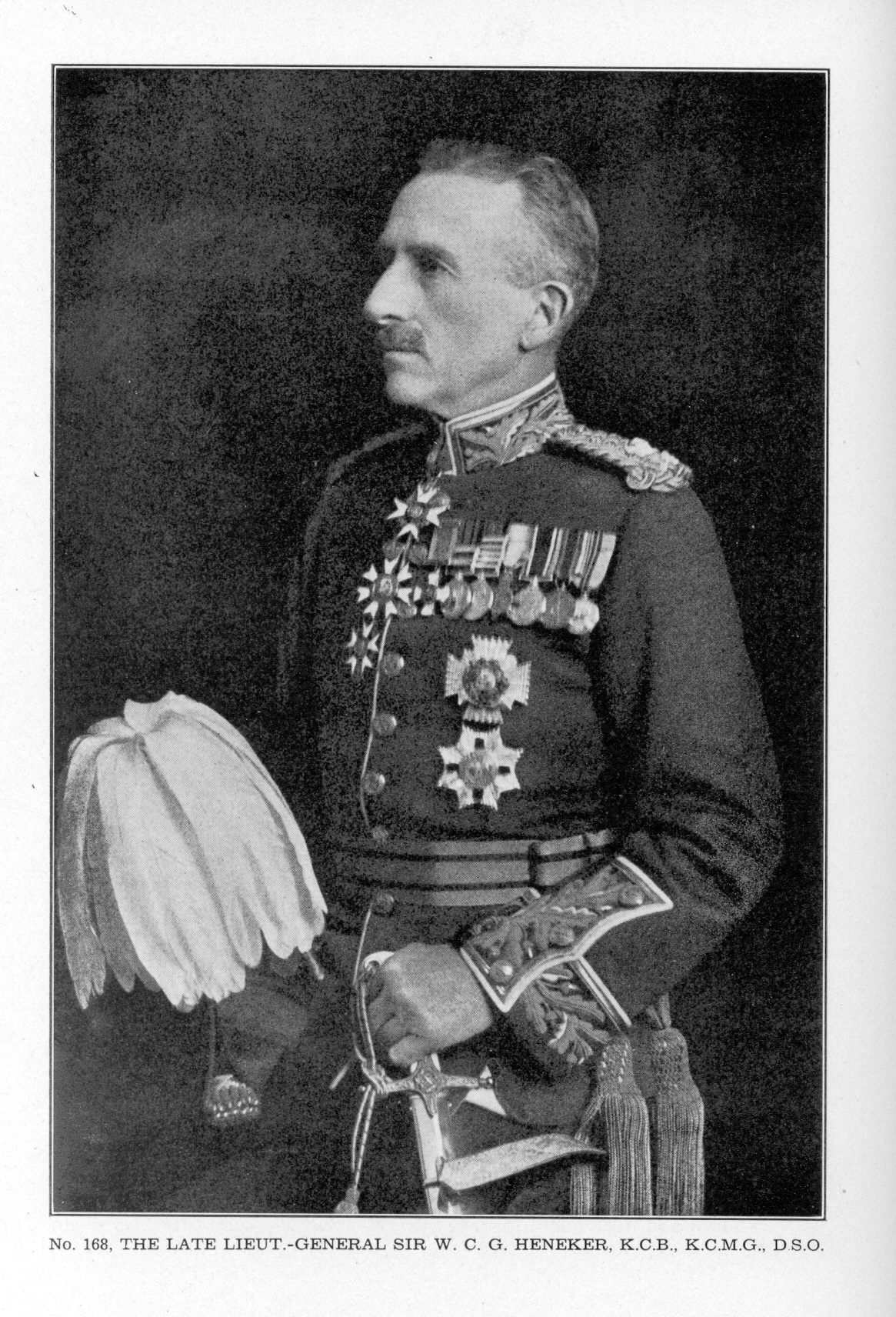 Portrait of Lieutenant General Sir William Charles Giffard Heneker